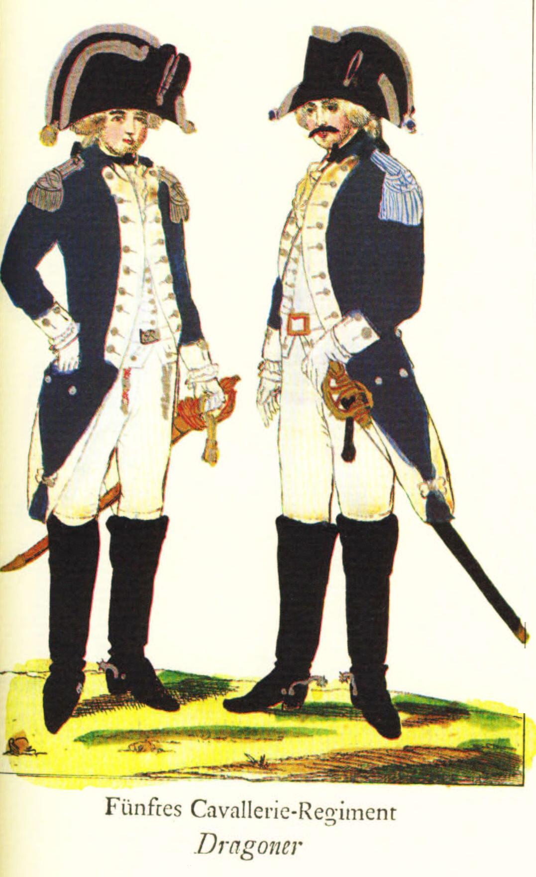 uniform plate